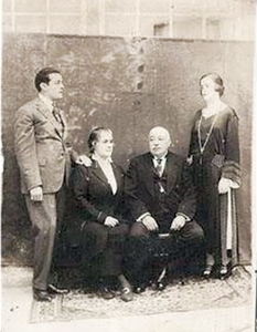 Portuguese Baron Gabriel Tavares Leite, with his family